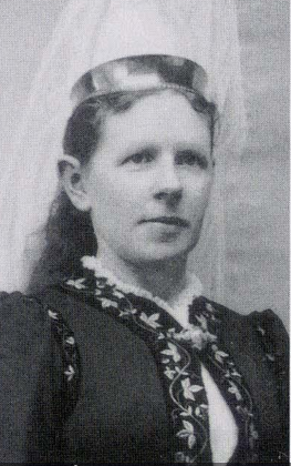 Photograph of Katrín Skúladóttir Magnússon, Icelandic women's rights activist and town councillor (1858-1932)